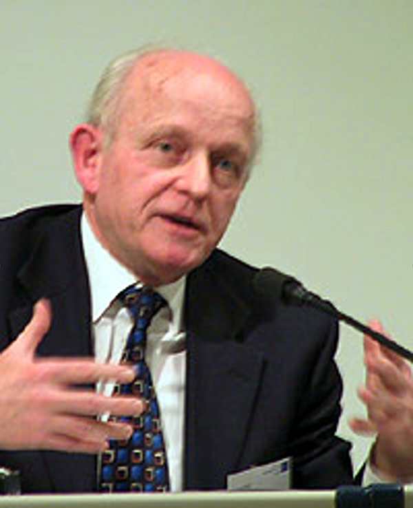 own file